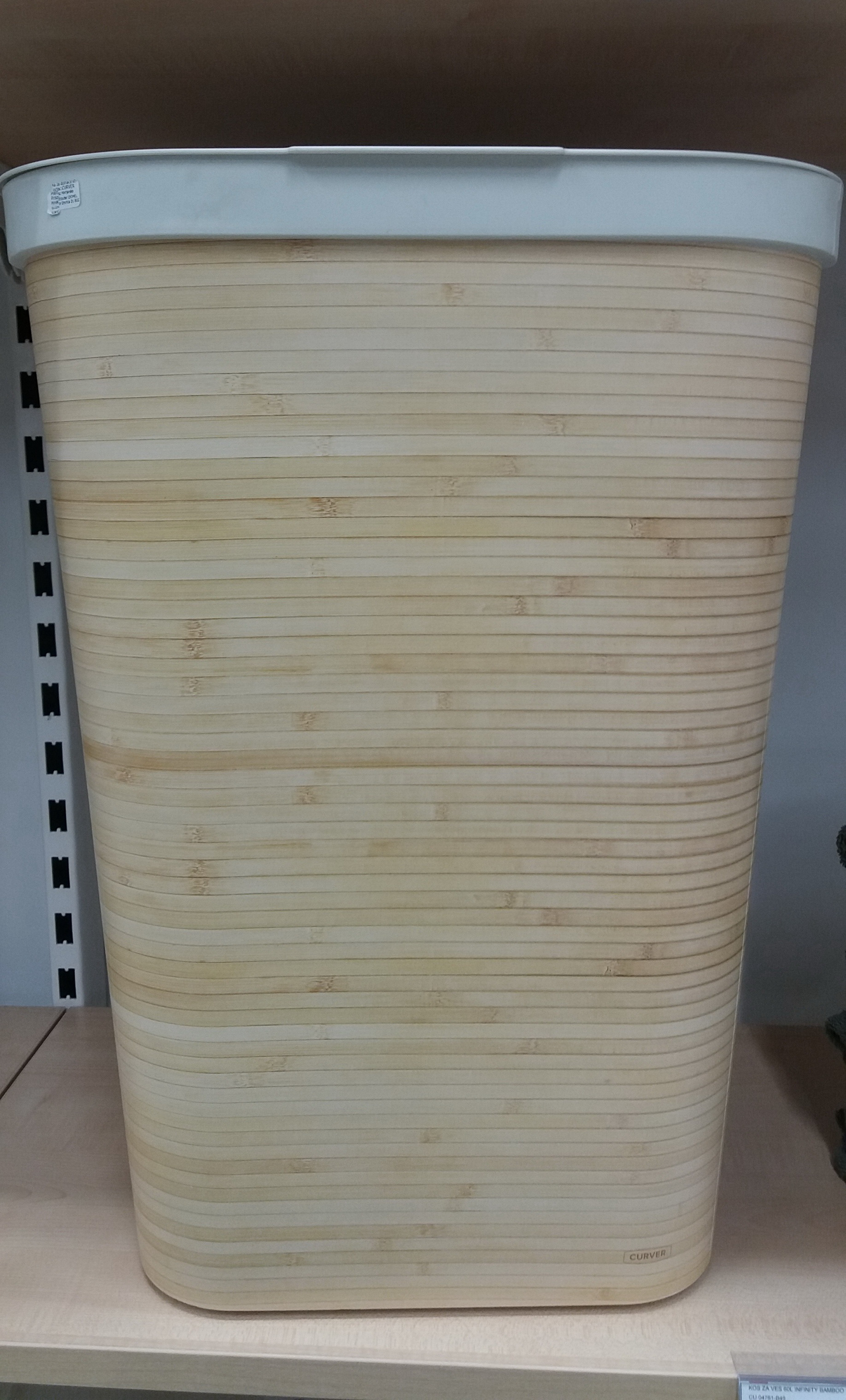 Laundry basket, wood